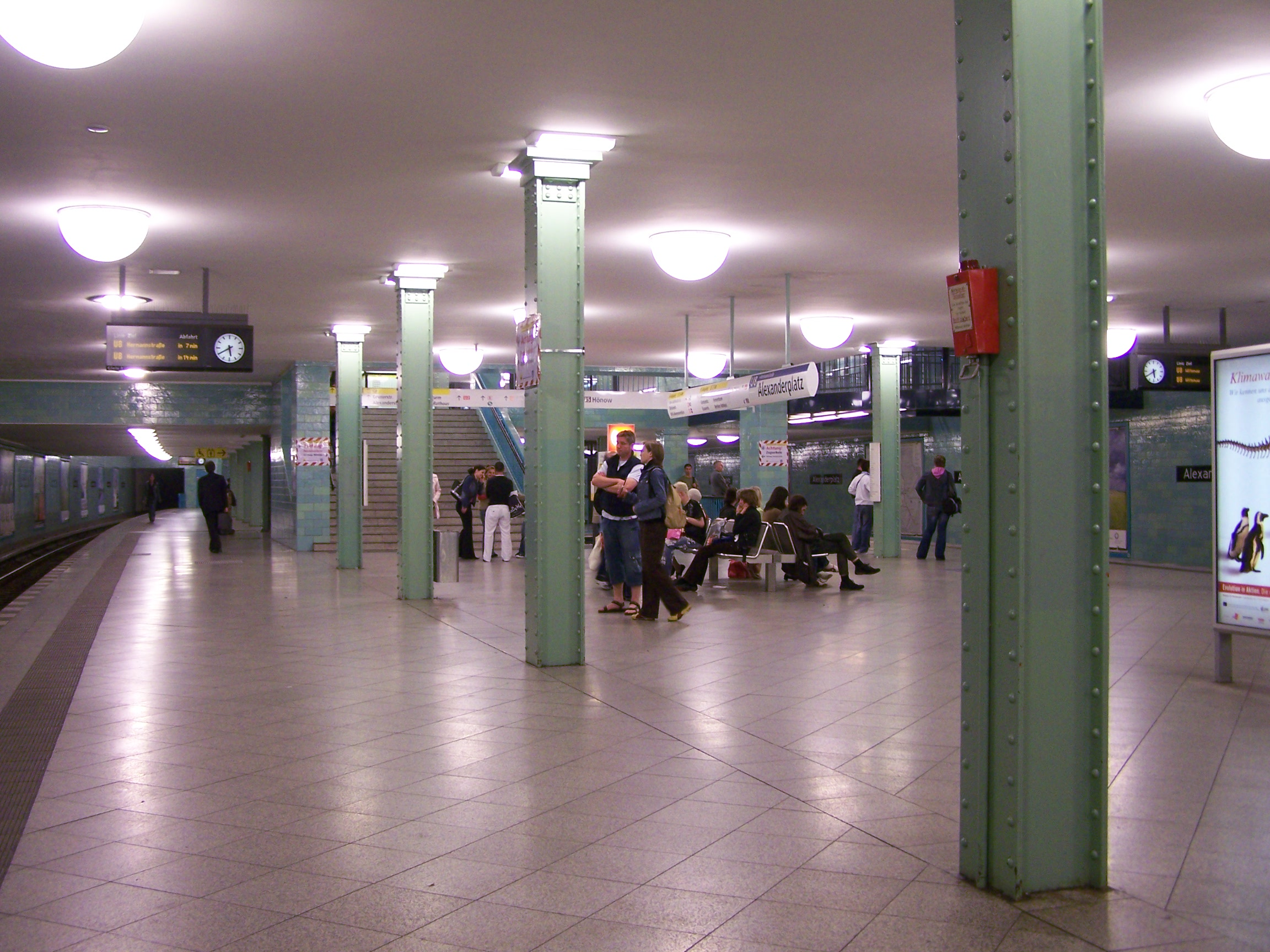 the Berlin U-Bahn station Alexanderplatz, line U8